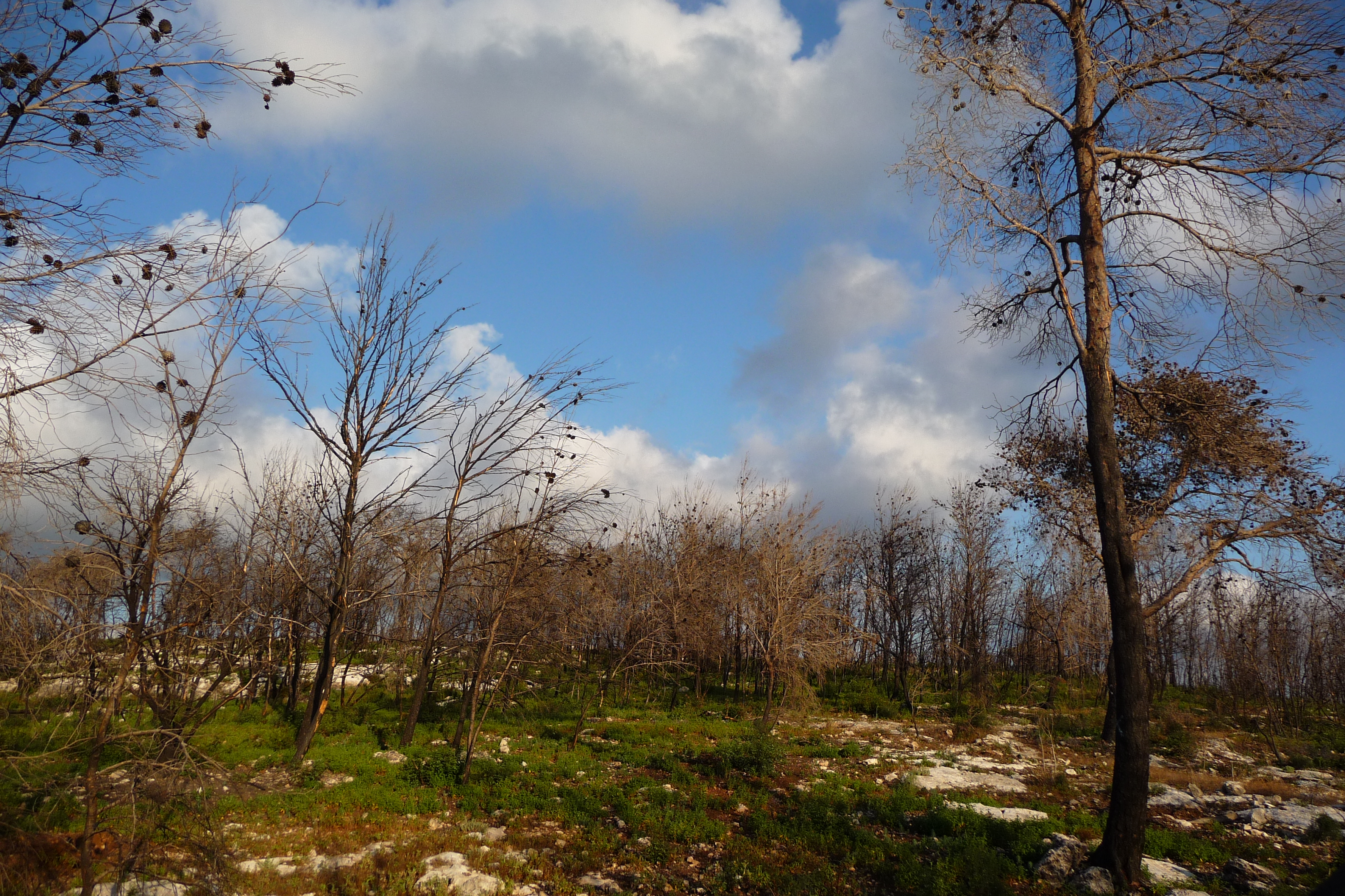 Carmel Park